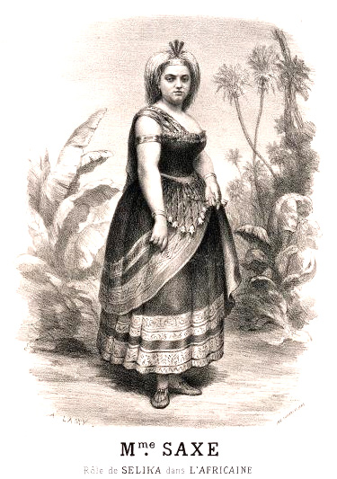 Marie Sasse in the role of Sélika in L'Africaine.